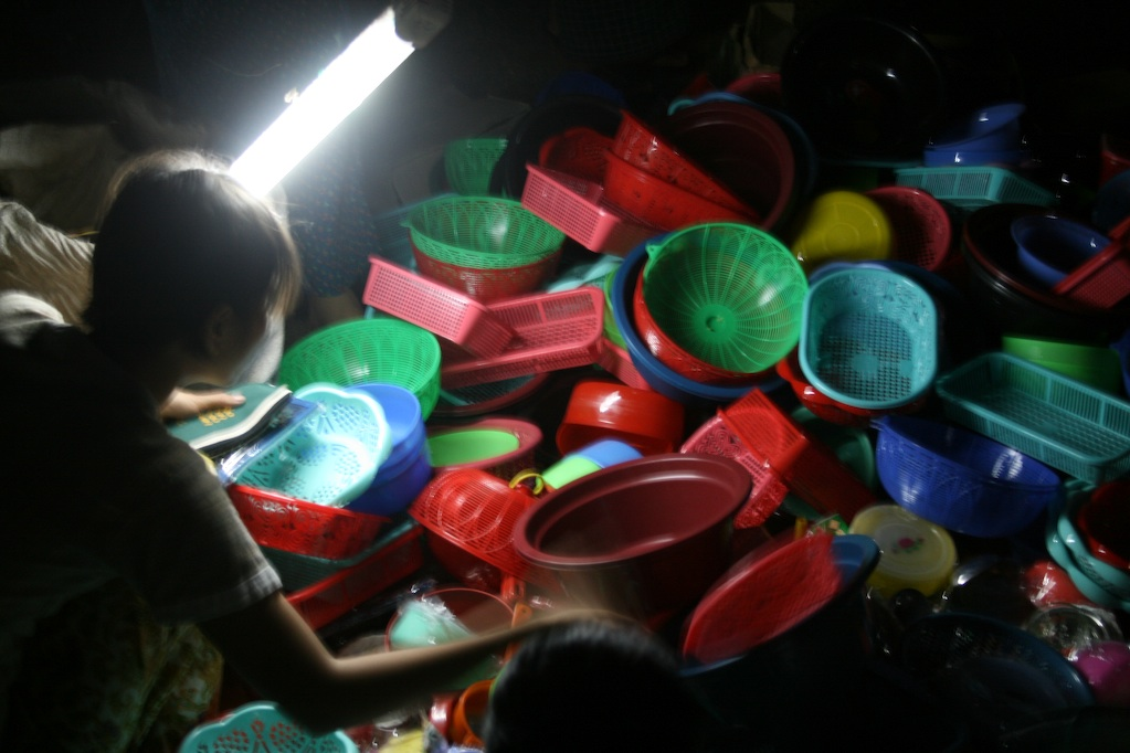 Pathein (market buckets) in Myanmar/Burma.